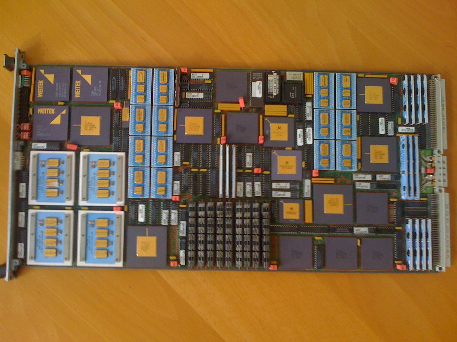 Mainboard of a Suprenum-1 Node